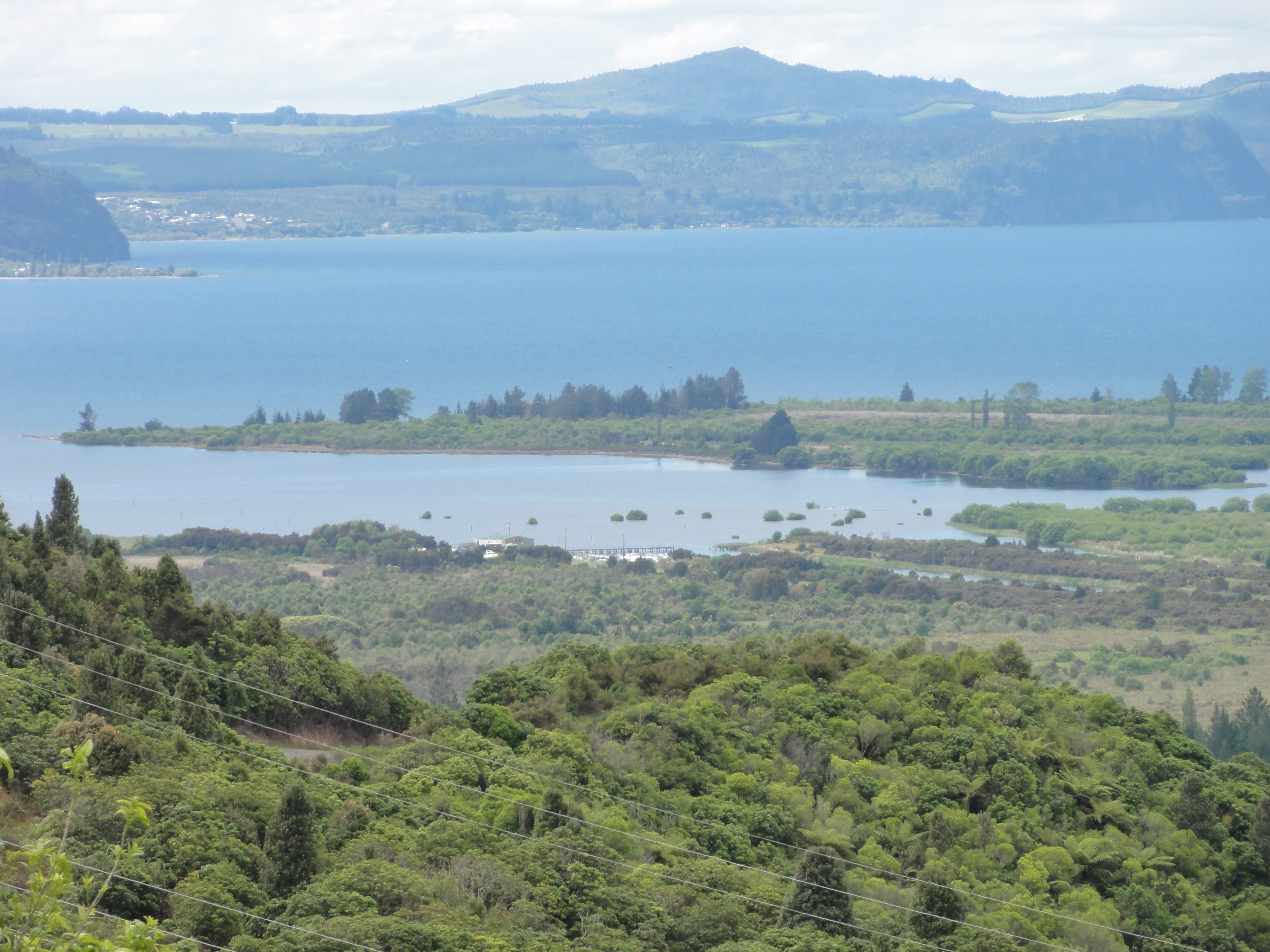 Mouth of Tongariro River, Lake Taupo